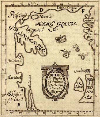 The Skálholt-map made by the icelandic teacher Sigurd Stefansson in the year 1570. Description Greenlands from Bjørn Jonsen of Skarsaa in Iceland from the year 1669, latin by Theodor Thorlac. Note: Helleland ('Stone Land'=Baffin island) Markland ('forest land'=Labrador) Skrælinge Land ('land of the savages'=Labrador) Promontorium Vinlandiæ (the promontory/cape of Vinland=Newfoundland)